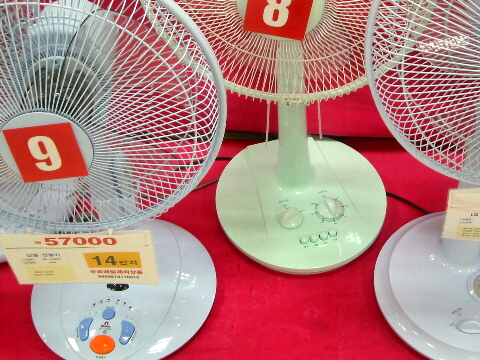 Close up of fans being sold in a South Korean department store in June 2003. They are equipped with "timer knobs" which fan-death-fearing South Korean users can set to 15, 30, 45, 60 minutes and more before going to sleep. Picture taken by Na-Rae Han.